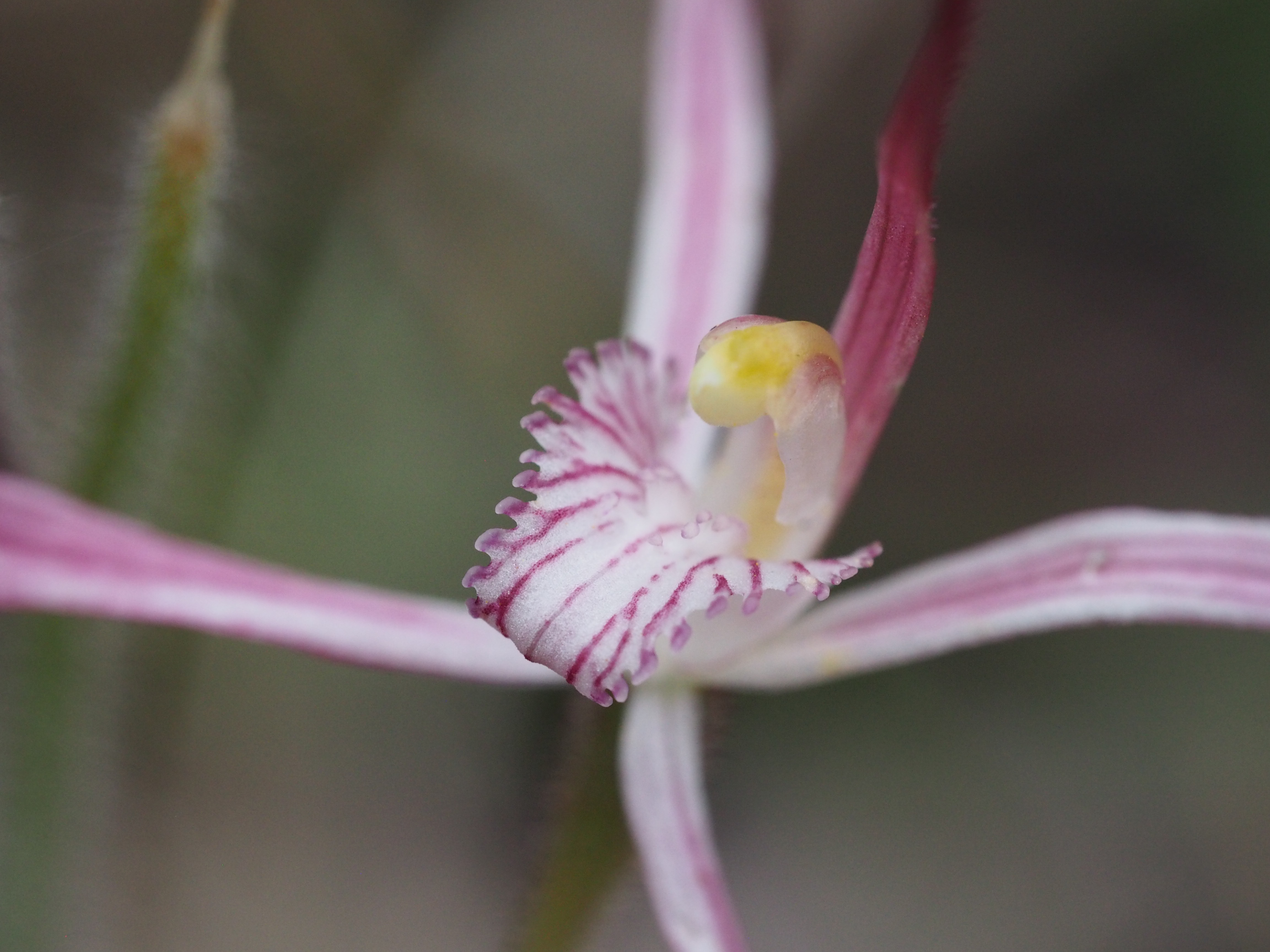 Caladenia occidentalis growing in Cockleshell Gully near Leeman